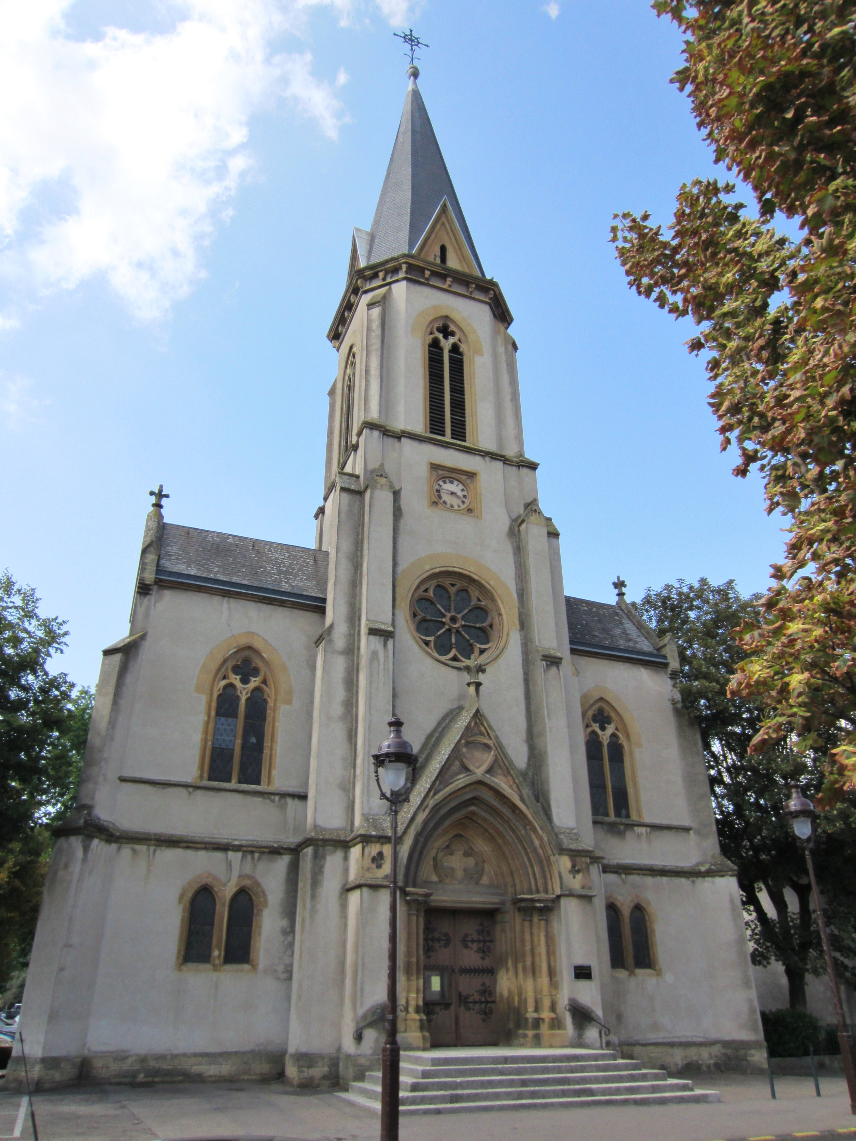 Description temple Thionville (voir [1]) Date26 August 2011Sourcemon appareil photoAuthorAimelaimePermission(Reusing this file) temple Thionville (voir [1])